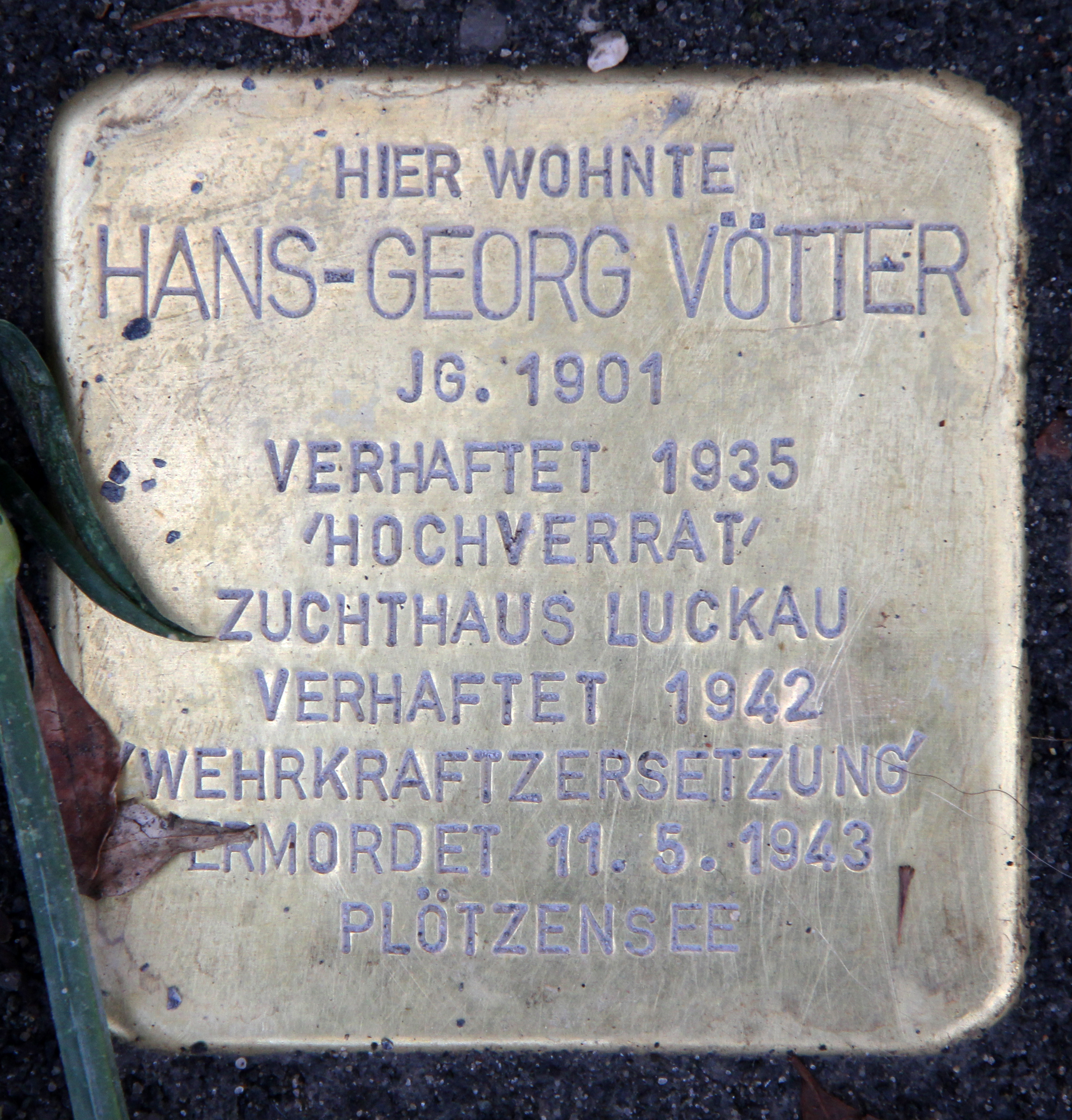 "Stolperstein" (stumbling block), Hans-Georg Vötter, Onkel-Bräsig-Straße 111, Berlin-Britz, Germany gestohlen am 6. November 2017